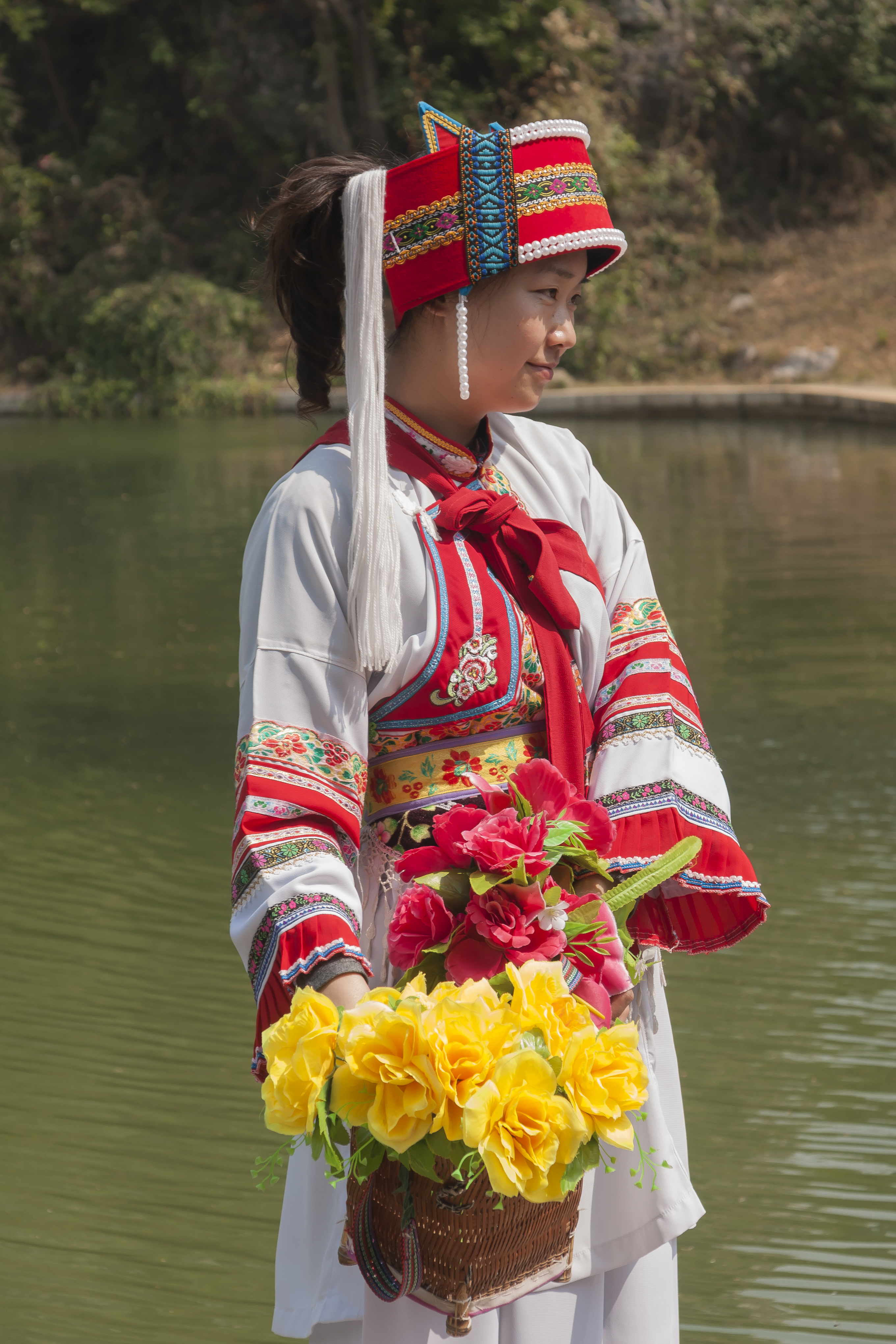 Shilin, Yunnan, China: Woman in traditional clothing of the Yi people at Shilin Stone Forest.